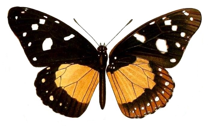 Neave, S. A., 1910 Zoological collections from Northern Rhodesia and adjacent territories. Lepidoptera Rhopalocera Proc. zool. Soc. Lond. 1910 : 2-86, pl. 1-3 1. Amauris lobengula katangae male ssp. nov = echeria, = Amauris echeria katangae Neave, 1910